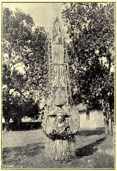 A Paravar daiva-dancer as pictured in Edgar Thurston's Castes & Tribes of South India, volume 6, p. 141